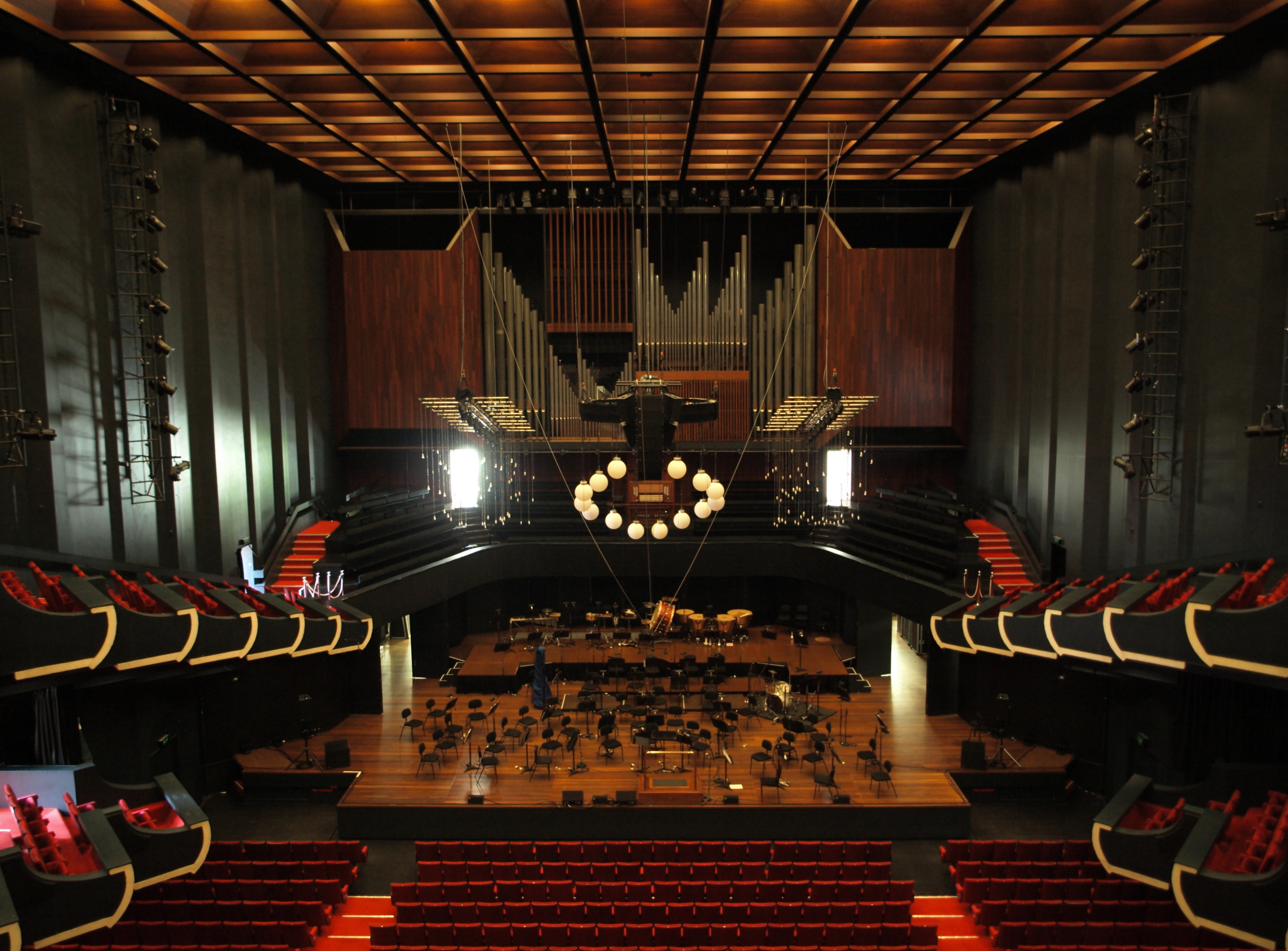 View from the upper gallery of the Perth Concert Hall in Perth, Western Australia.